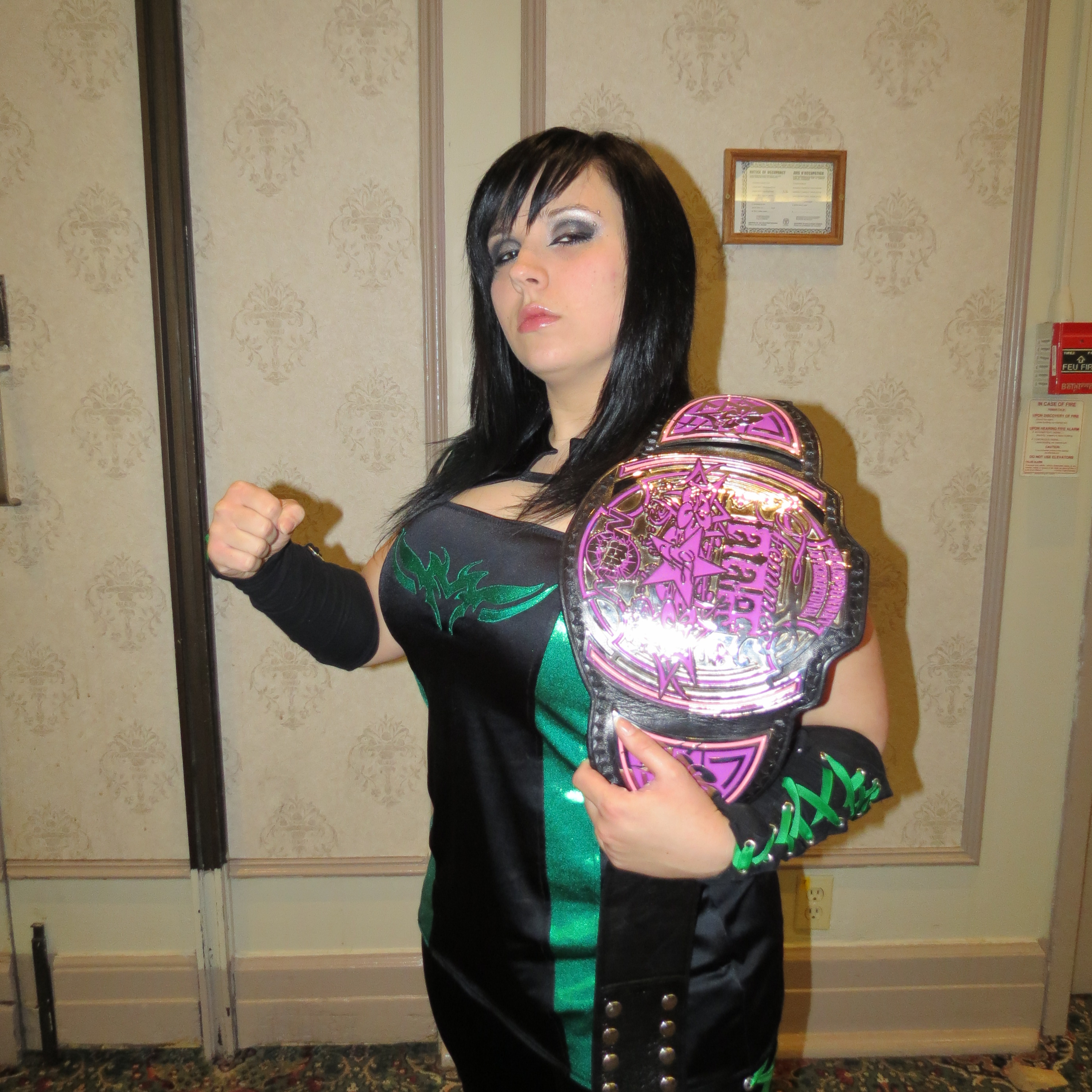 Independent wrestler Kalamity at the NCW Femmes Fatales VIII, holding the Femmes Fatales International title